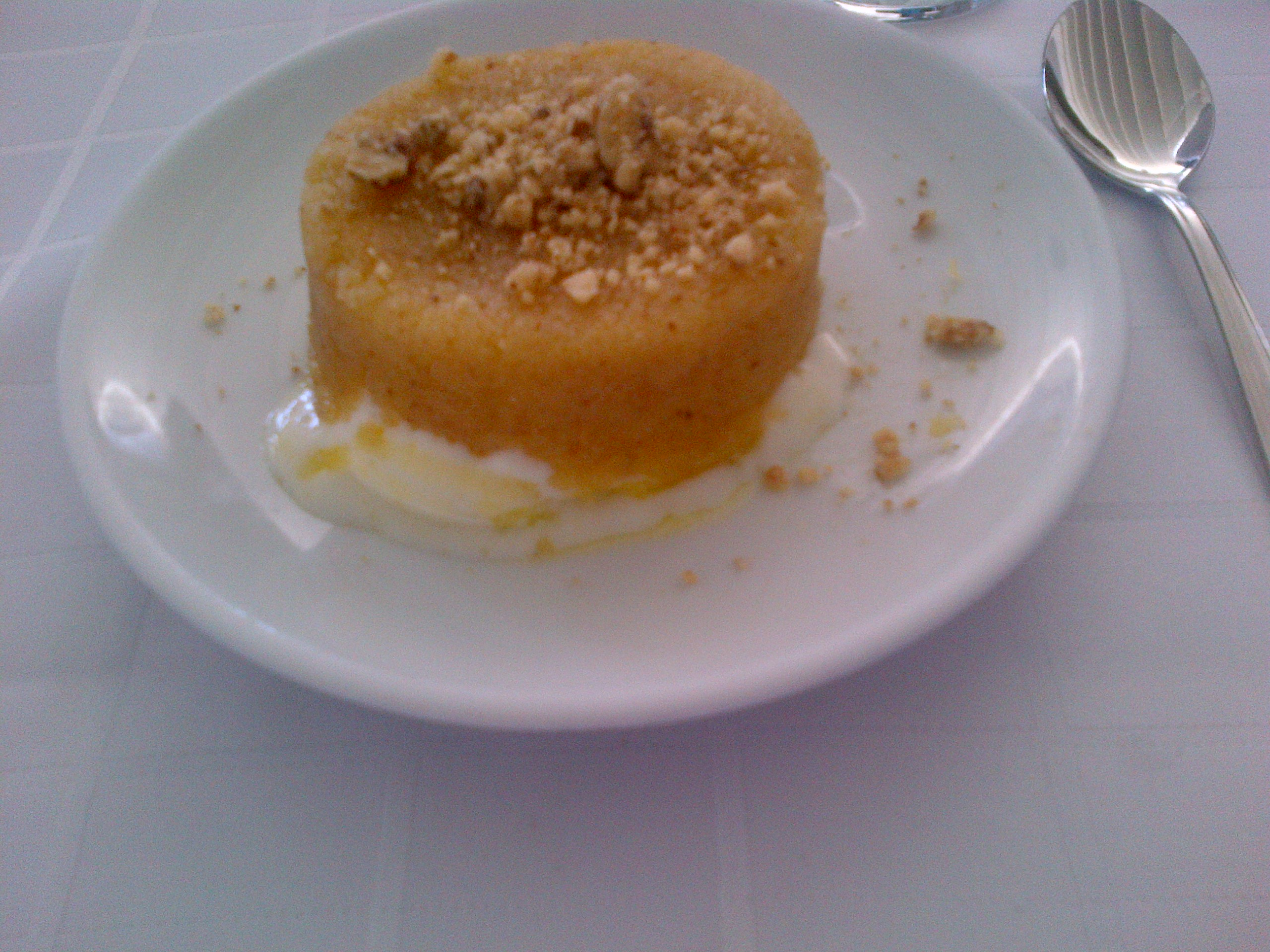 A dessert from the Turkish cuisine:"Dondurmalı irmik helvası". "Helva" de semolina with "kaymak" dondurma hidden inside, and with chrushed walnuts on top.